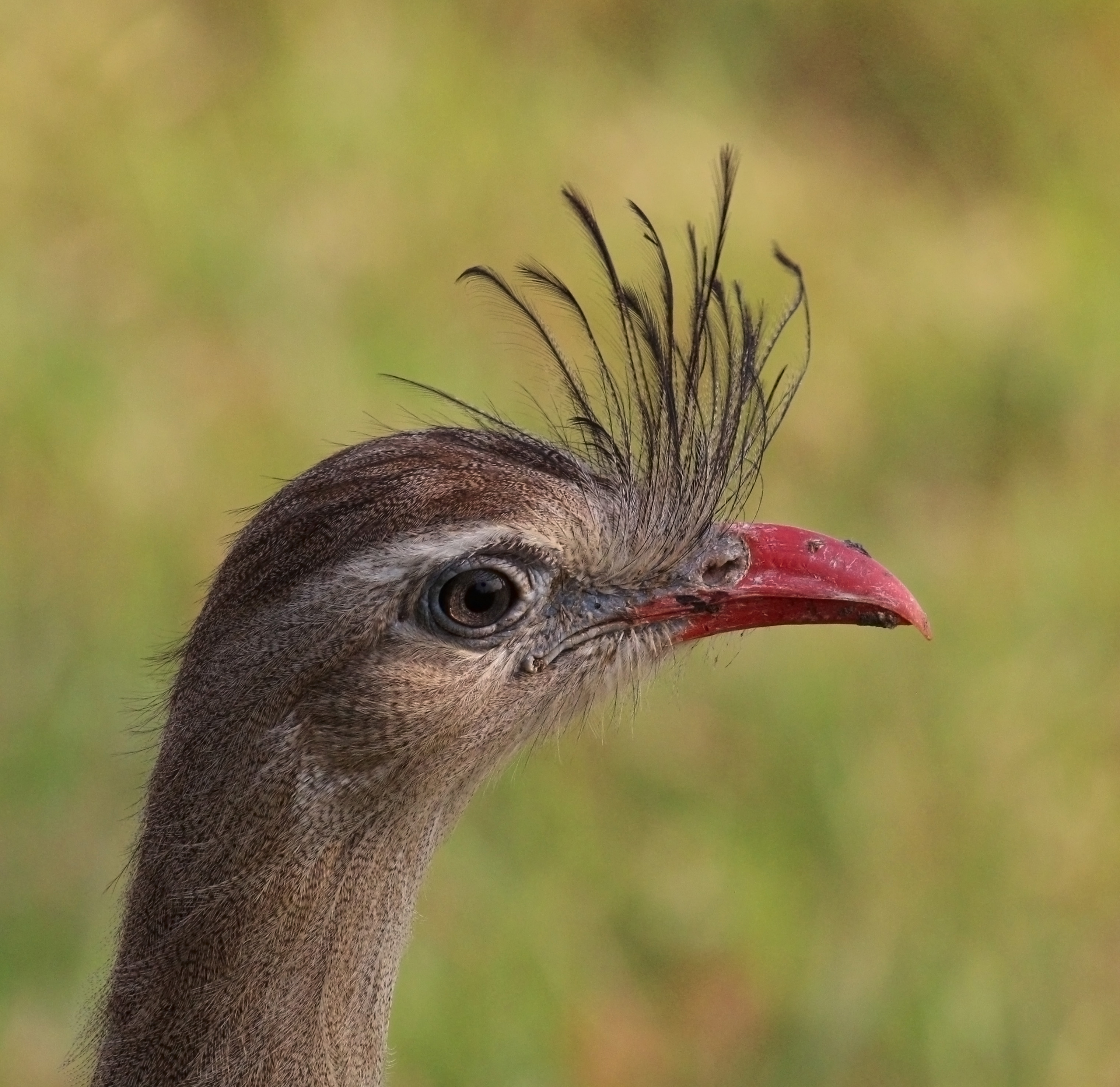 Red-legged seriema (Cariama cristata) head, the Pantanal, Brazil